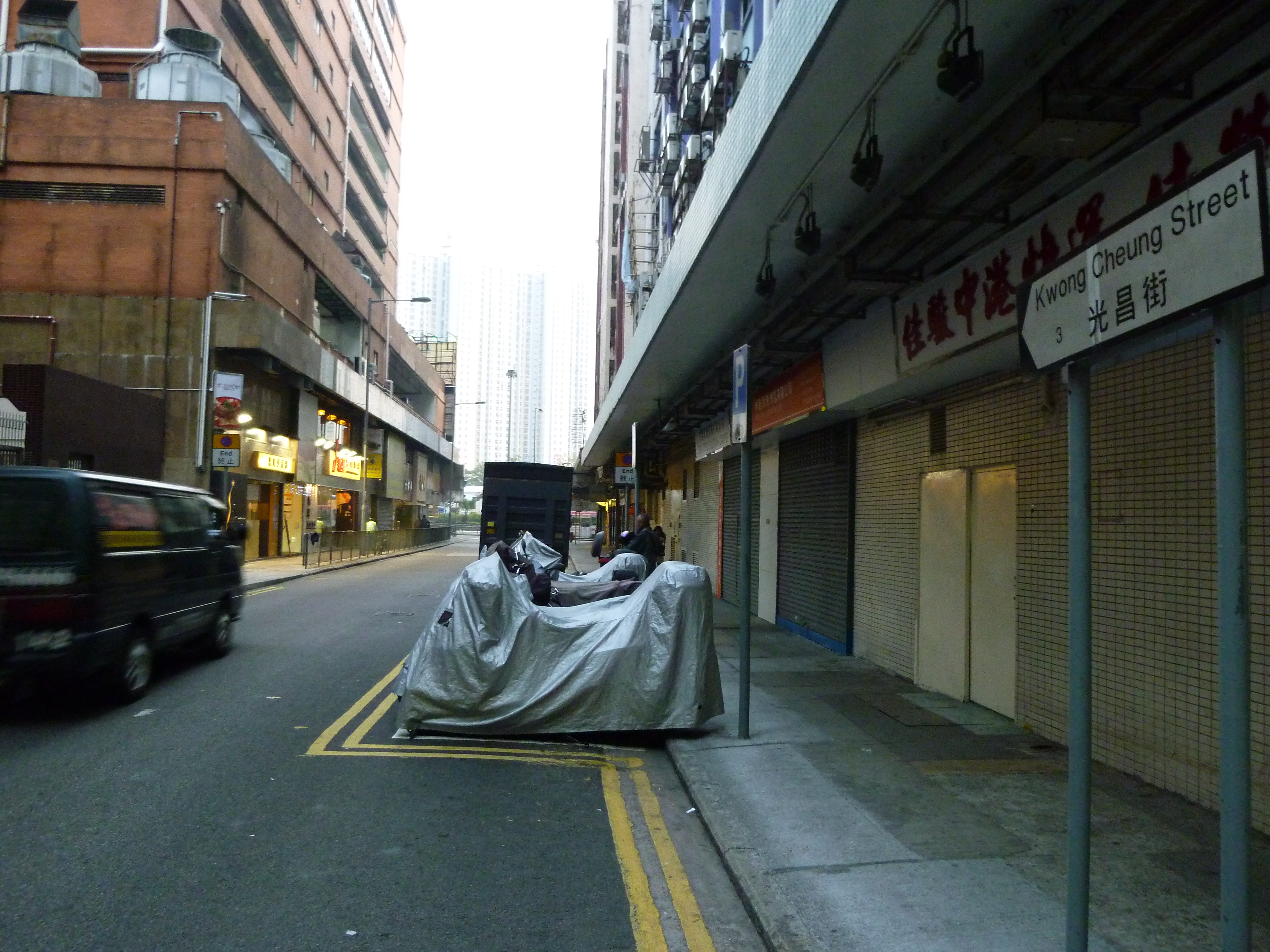 Kwong Cheung Street (Lai Chi Kok, Kowloon, Hong Kong SAR)